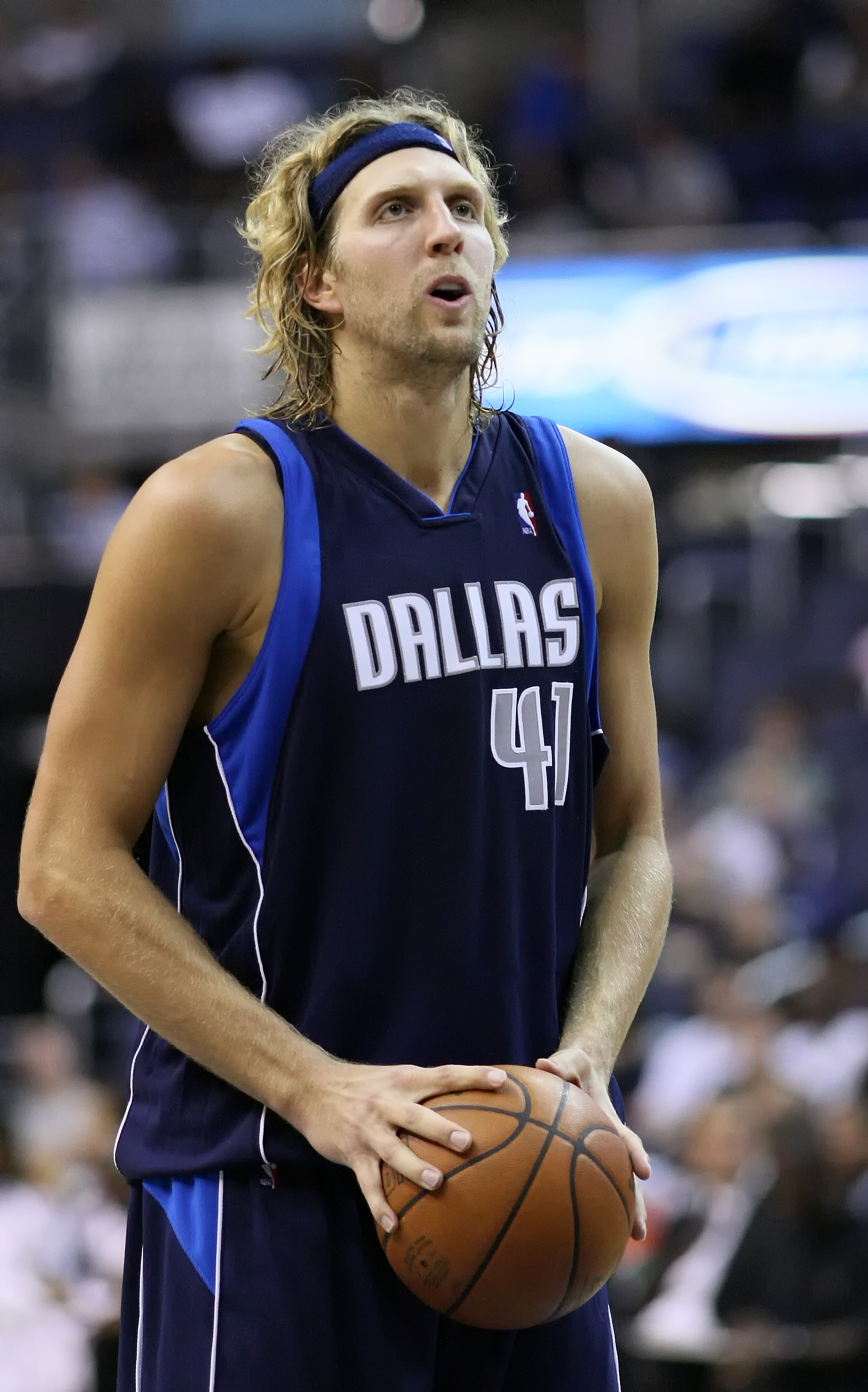 Washington Wizards v/s Dallas Mavericks October 9, 2009 at Verizon Center in Washington, D.C.